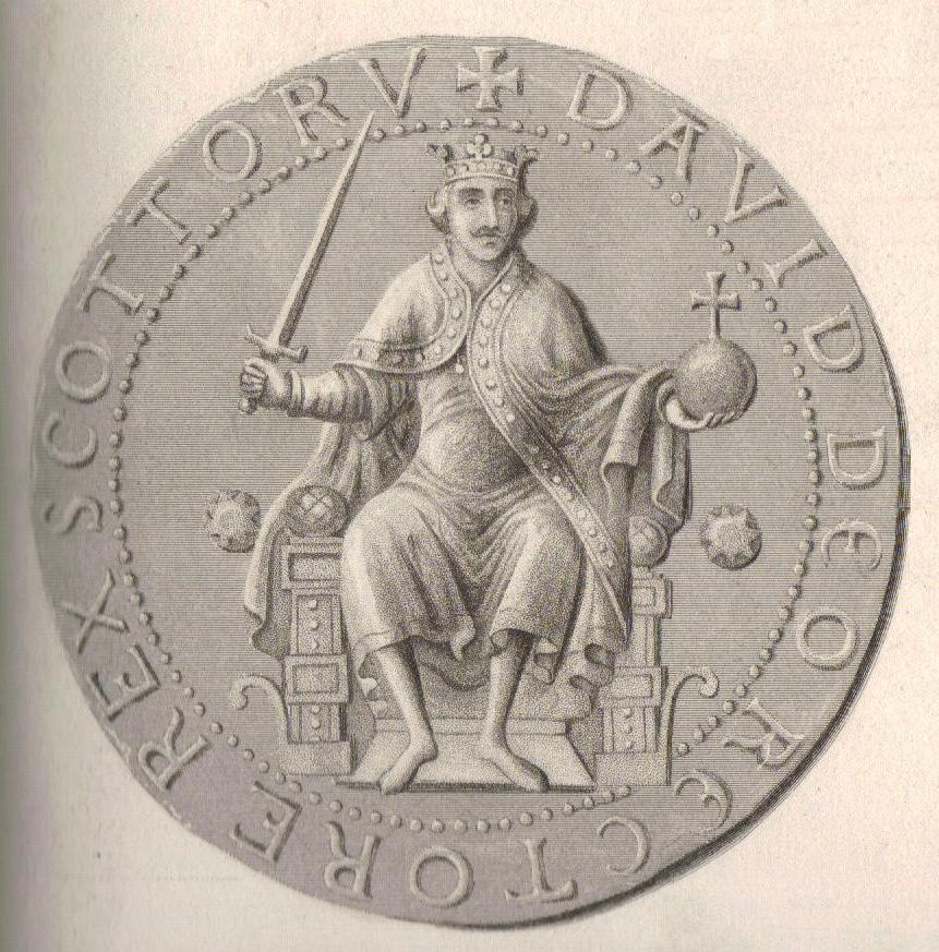 Steel engraving and enhancement of the obverse side of the Great Seal of David I, King of Alba (Scotland).